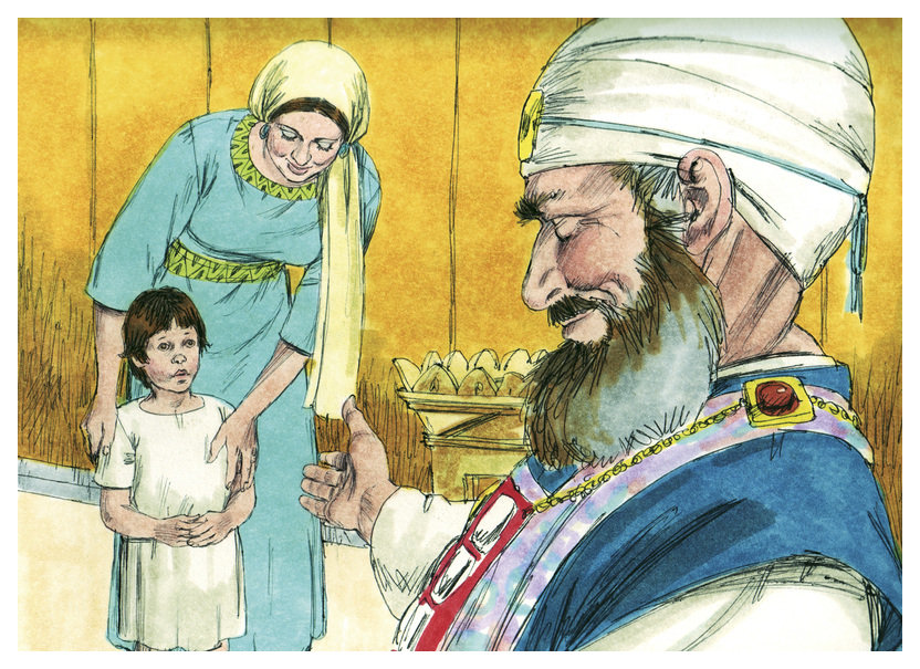 Biblical illustration of First Book of Samuel Chapter 1